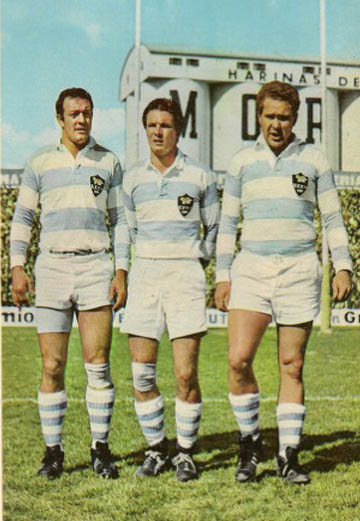 Argentina national rugby union team (Los Pumas) forward line in 1970: García Yáñez, Handley and Foster.